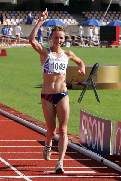 Zuzka winning at ME 23 Kaunas.